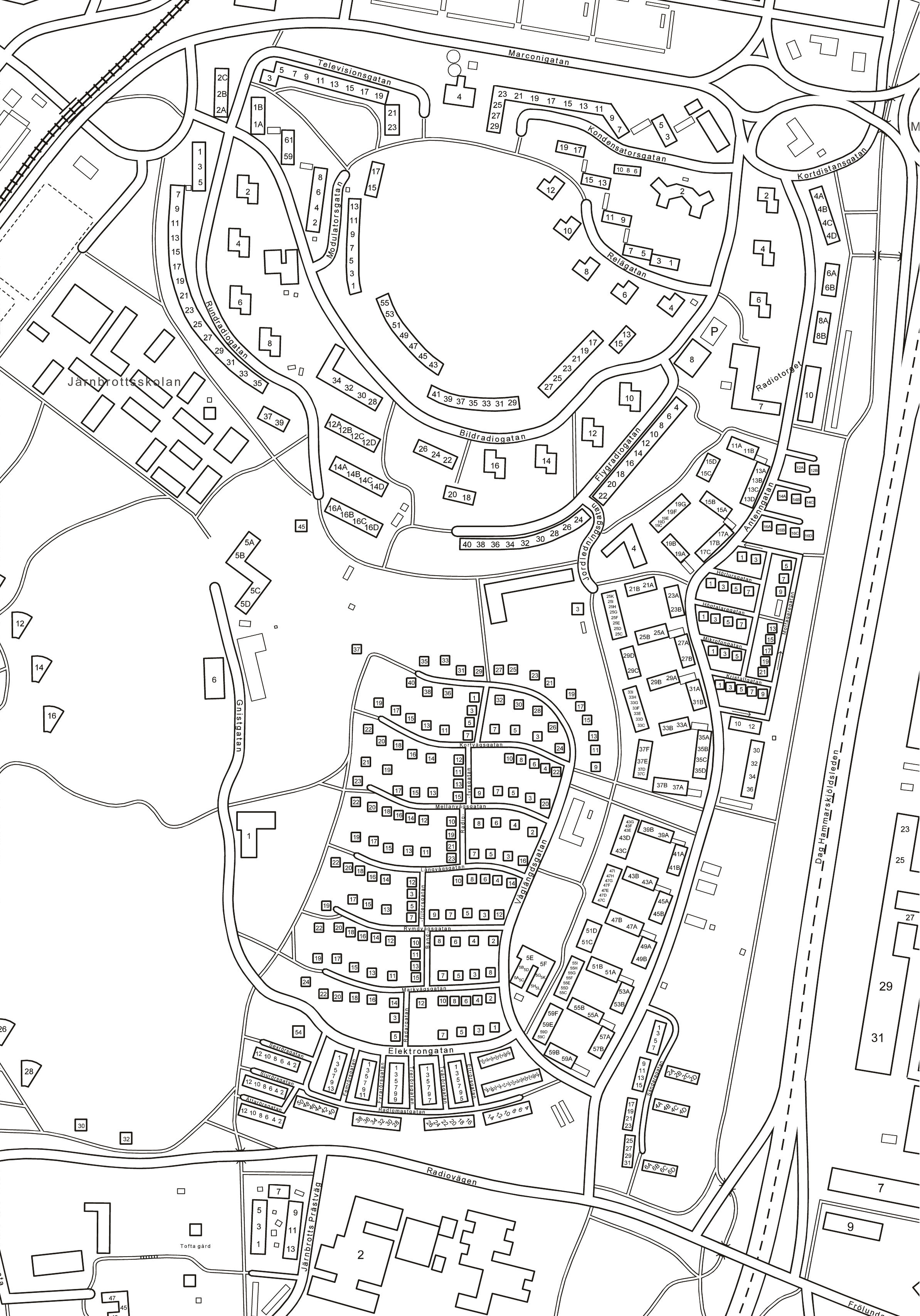 Map over Järnbrott